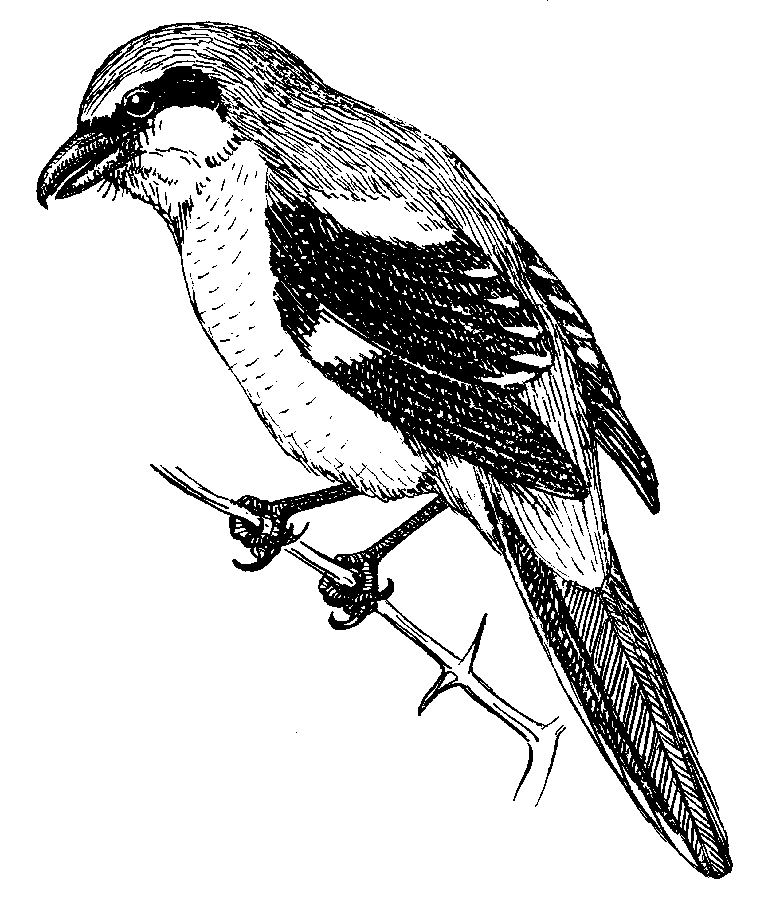 Line art drawing of a shrike (Lanius ludovicianus)